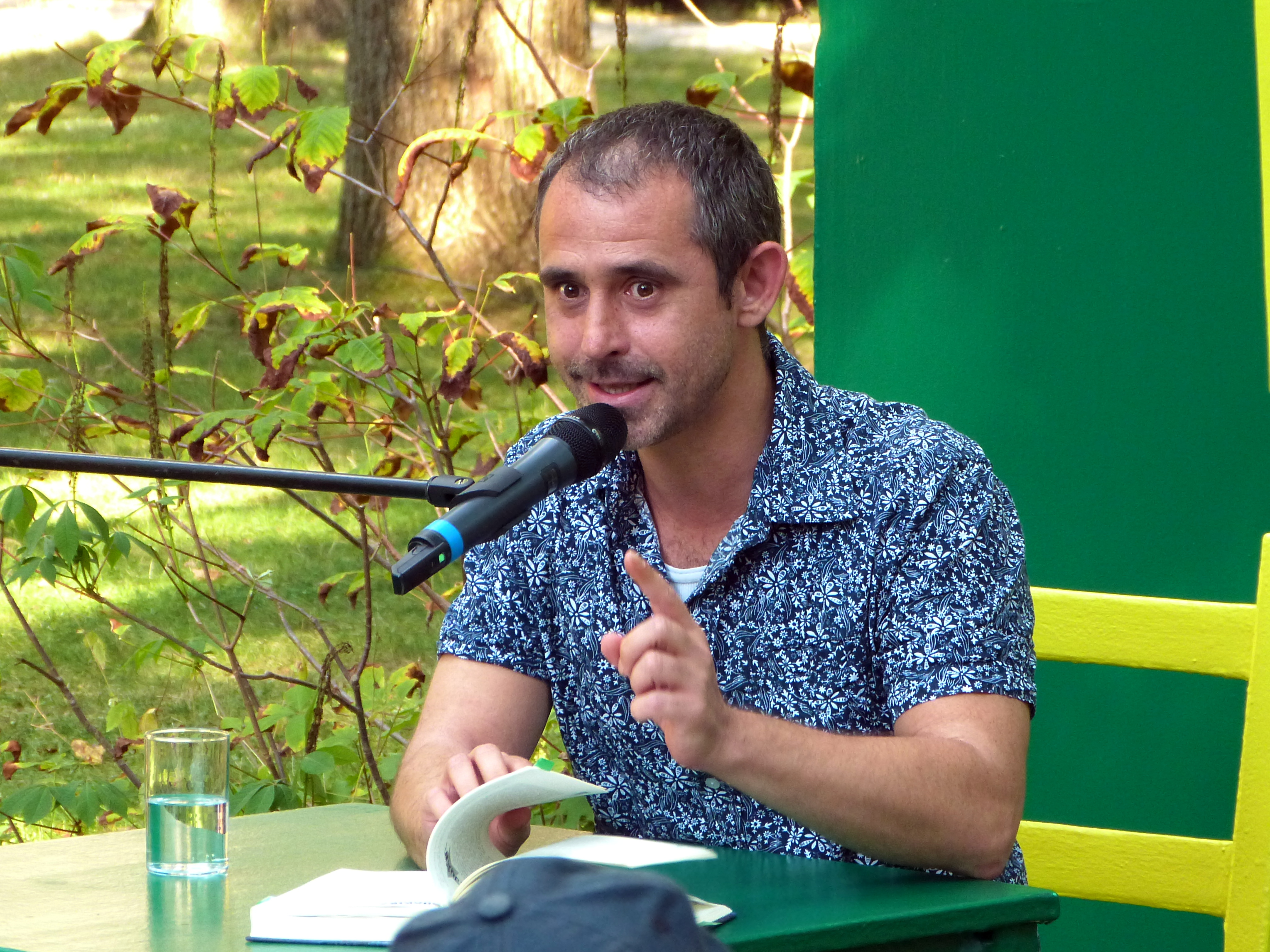 Mario Fesler, german author of books for children, at the Erlanger Poetenfest 2019.